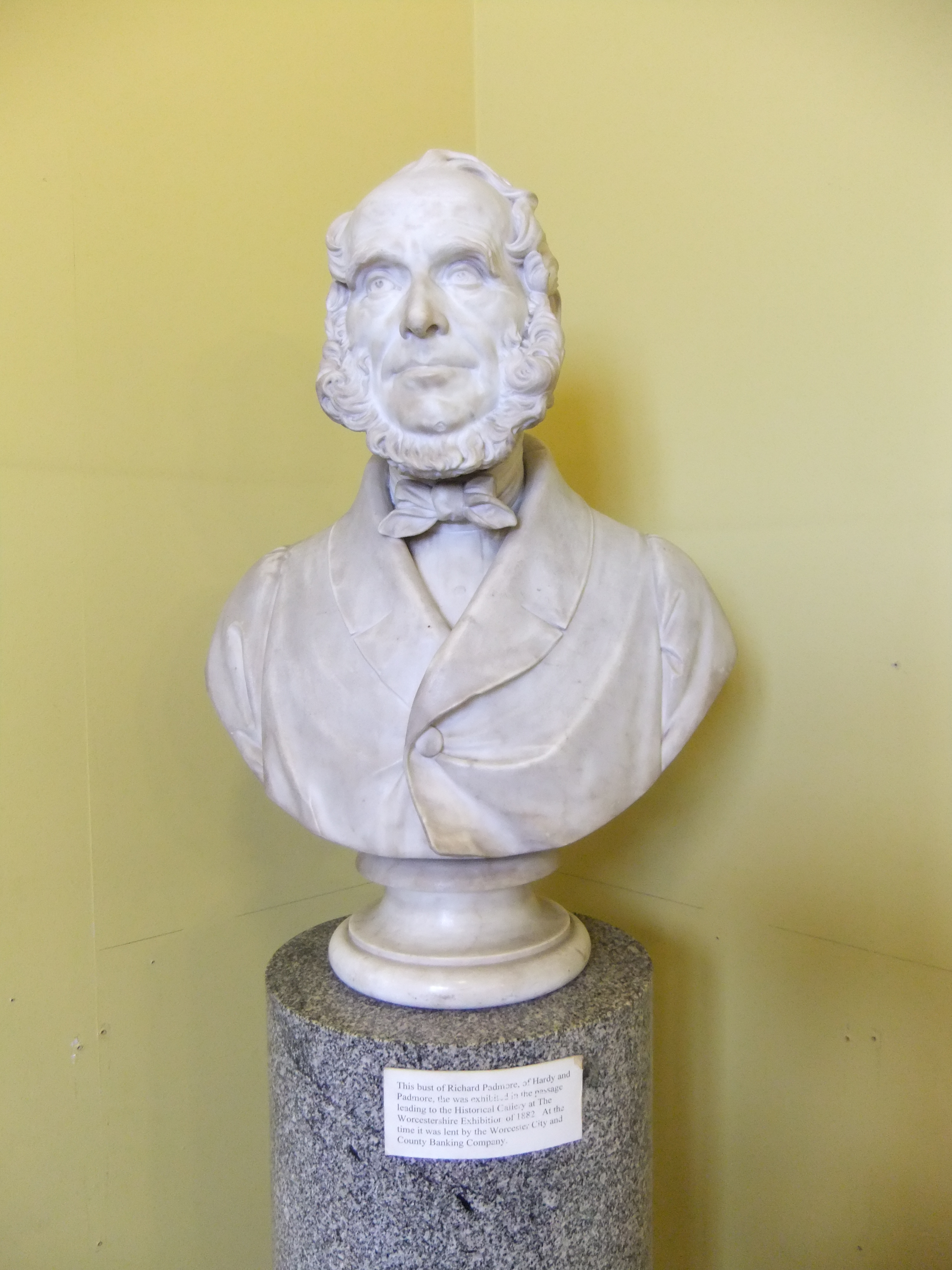 Bust of Richard Padmore (Engineer of Hardy and Padmore). Photo taken at Worcester City Art Gallery & Museum, England.